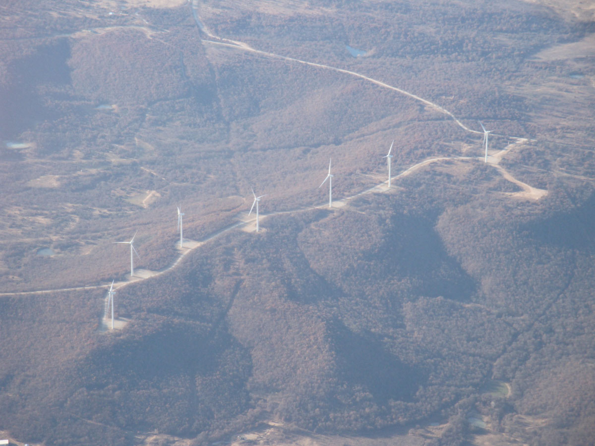 Wind farm near Graham, Texas.